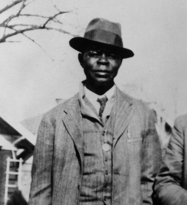 Title: E.B. McKinney, STFU Vice President crop of pic by Louise Boyle Photo ID: 5859pb2f15ap800g Collection: Louise Boyle. Southern Tenant Farmers Union Photographs, 1937 and 1982 Repository: The Kheel Center for Labor-Management Documentation and Archives in the ILR School at Cornell University is the Catherwood Library unit that collects, preserves, and makes accessible special collections documenting the history of the workplace and labor relations. Notes: Copyright: The copyright status of this image is unknown. It may also be subject to third party rights of privacy or publicity. Images are being made available for purposes of private study, scholarship, and research. The Kheel Center would like to learn more about this image and hear from any copyright owners who are not properly identified so that we may make the necessary corrections. Tags: Kheel Center for Labor-Management Documentation and Archives,Cornell University Library,African Americans, Labor Leaders, Union Officers